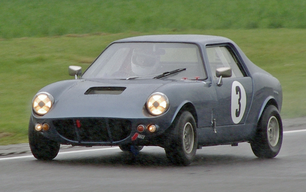 John Moon driving his 1969 Cox GTM in the Castle Combe Classic Series at the Motors TV raceday, 7th May 2012.